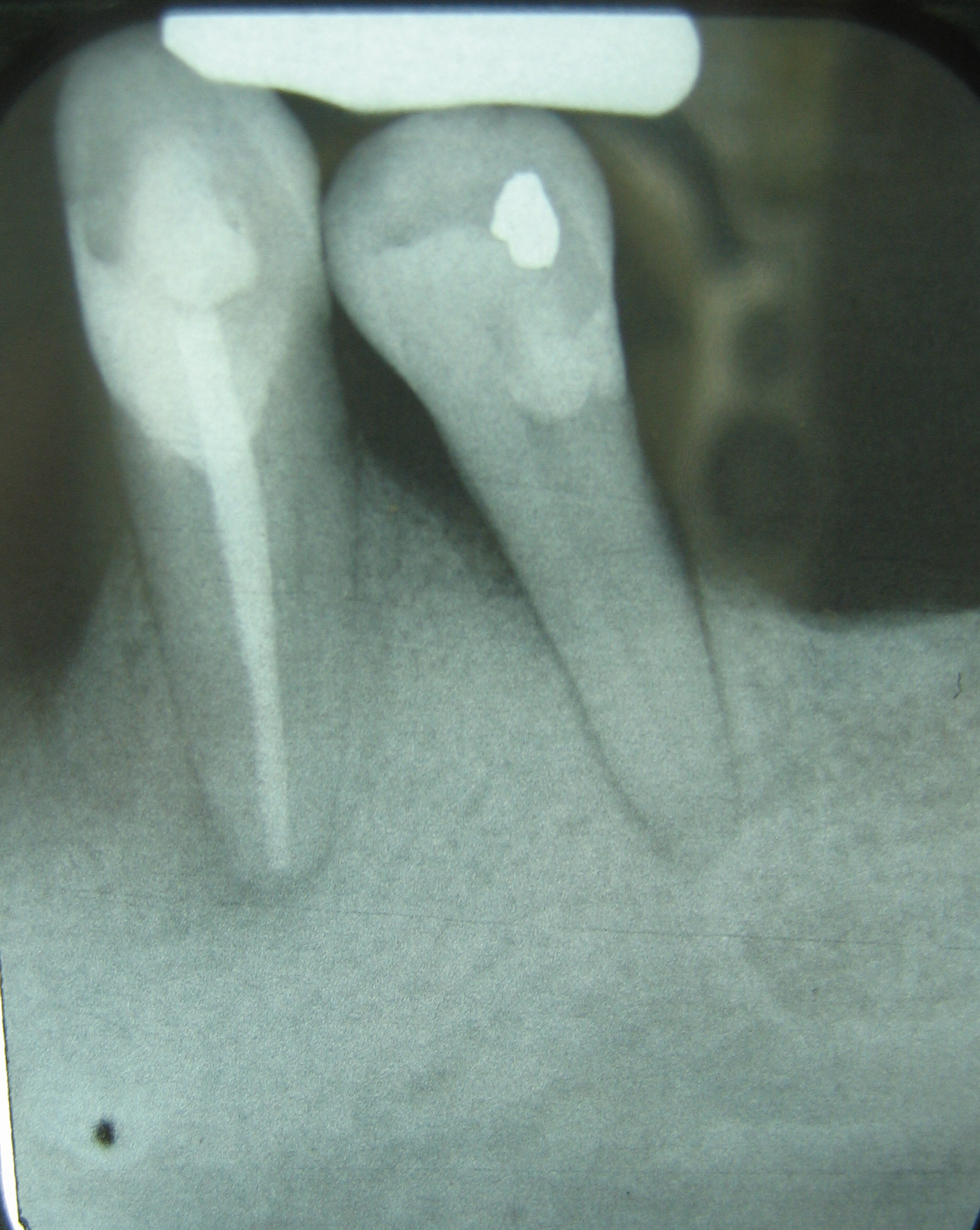 Periodontal bone loss shown in X-Ray image.